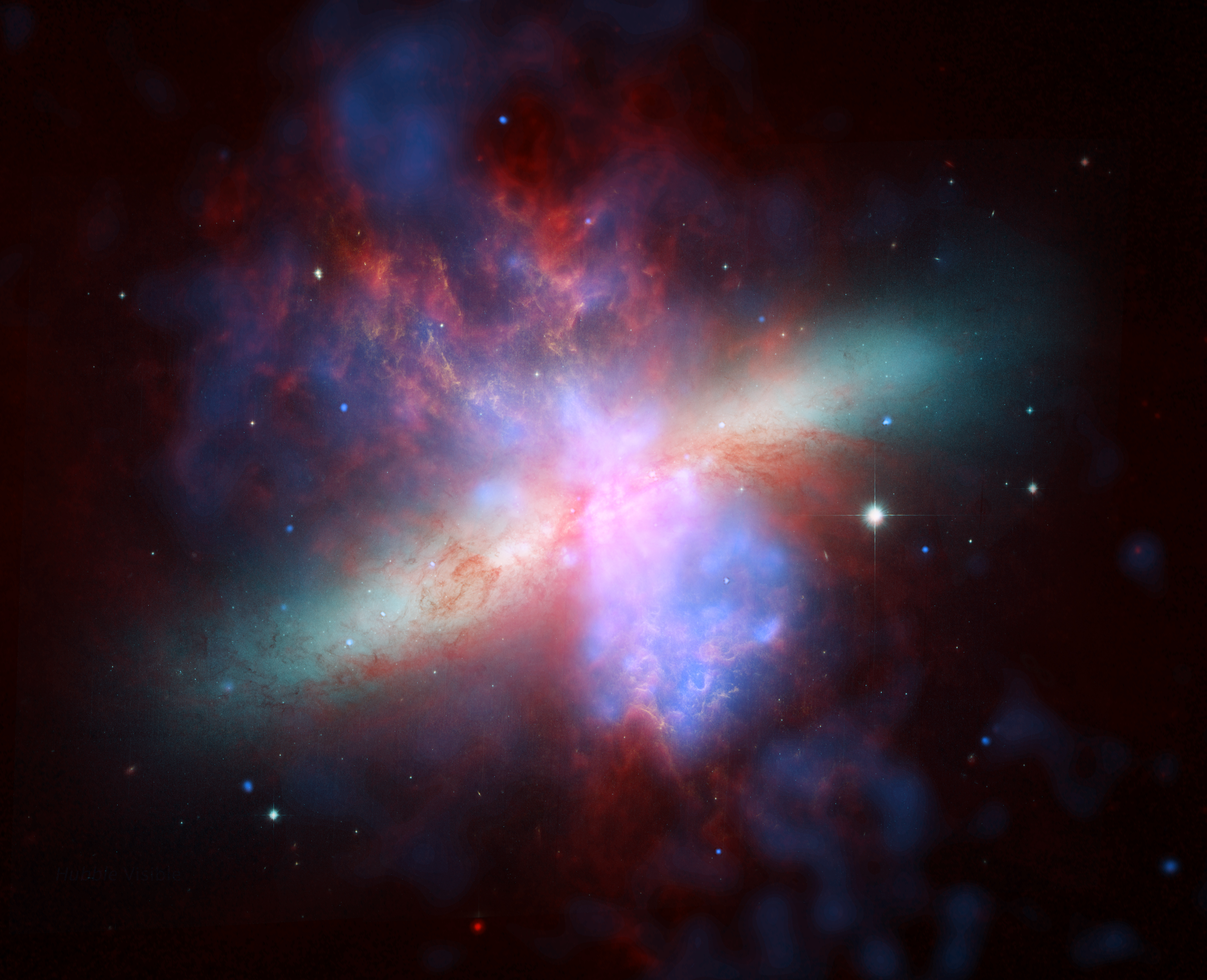 Messier 82. Composite of Chandra, HST and Spitzer images. X-ray data recorded by Chandra appears in blue; infrared light recorded by Spitzer appears in red; Hubble's observations of hydrogen emission appear in orange, and the bluest visible light appears in yellow-green.